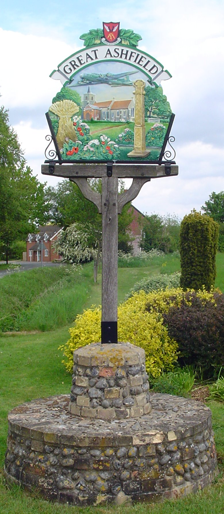 Signpost in Great Ashfield